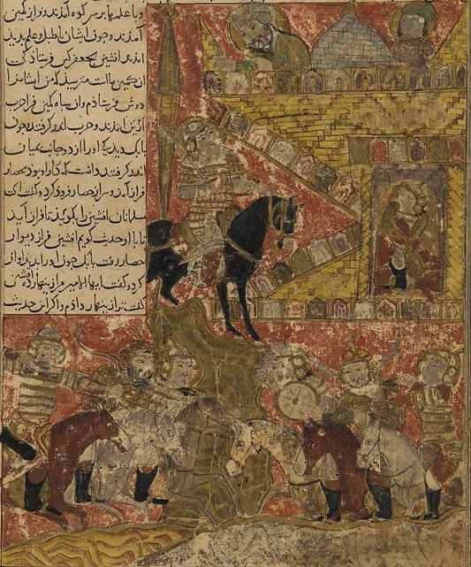 Folio from a Tarikhnama (Book of history) by Balami